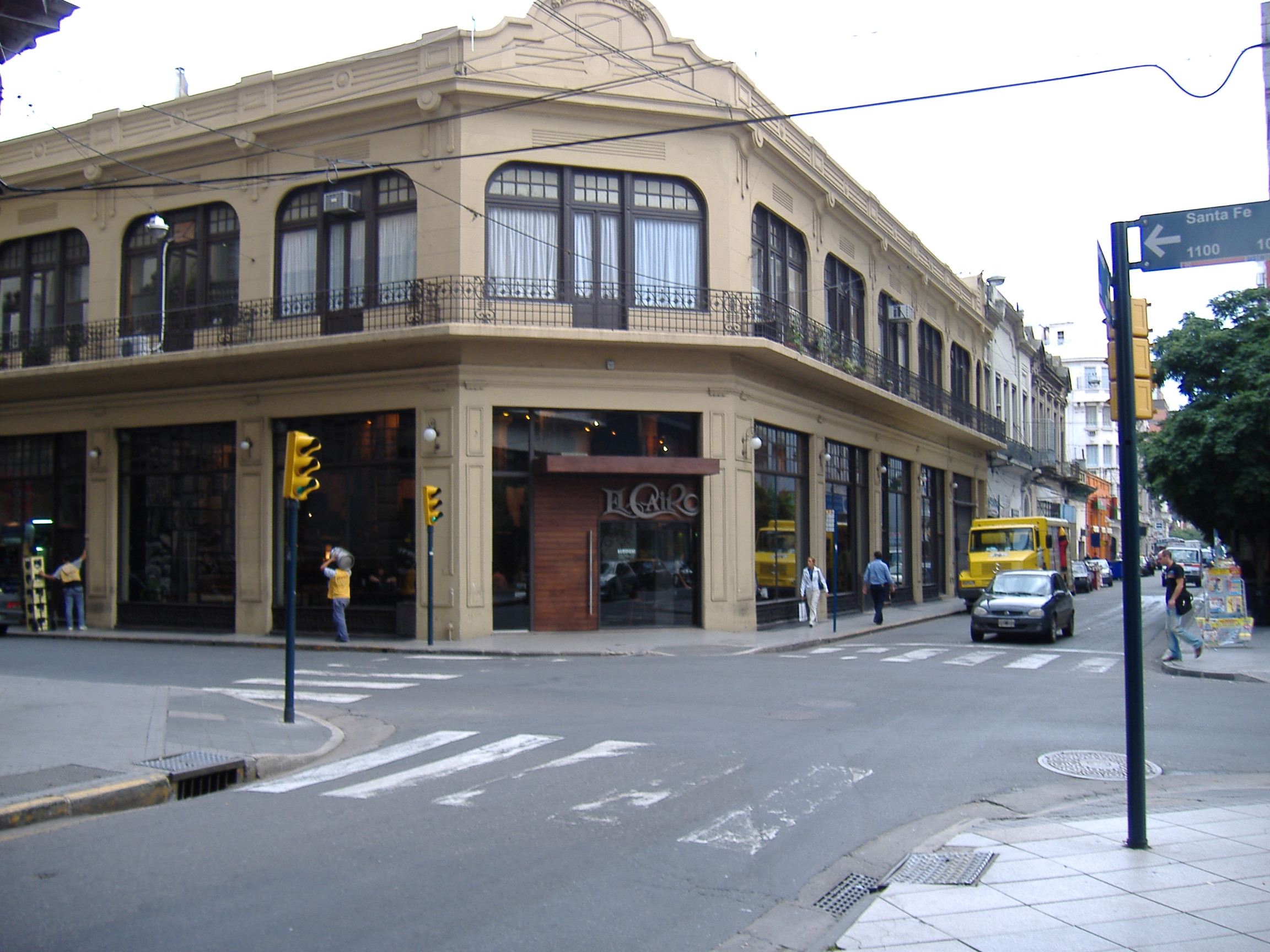 The traditional bar El Cairo in Rosario, Argentina (on the corner of Santa Fe and Sarmiento St.).